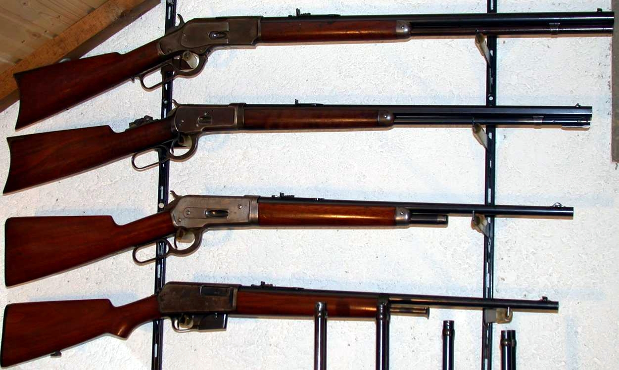 Winchester Mod 73, Mod 92 Take Down, Mod 86 Extra Light Take Down .45-70 cal, Mod 05 Semi Auto